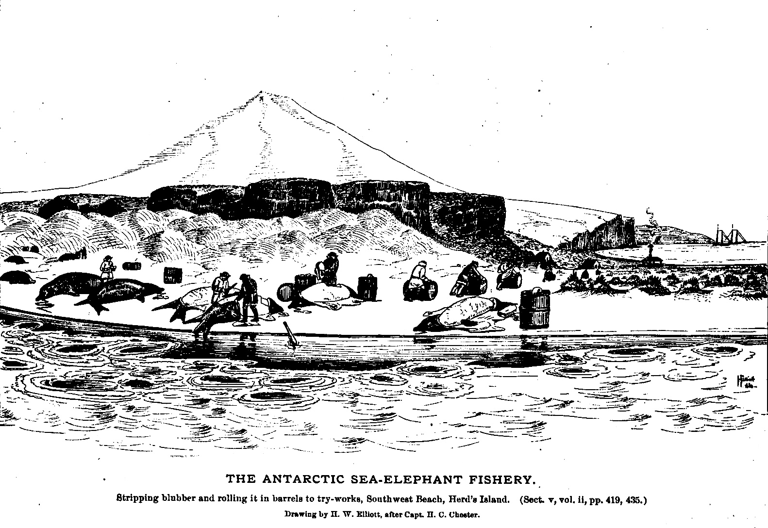 «Stripping sea-elephant blubber and rolling it in barrels to try-works Southwest beach» : scenery of southern elephant seal hunting on Heard Island during the 19th century.